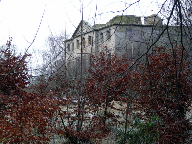 Tarbat House Tarbat House was designed in 1787 by James McLeran. It's a listed building, but empty and in much disrepair.